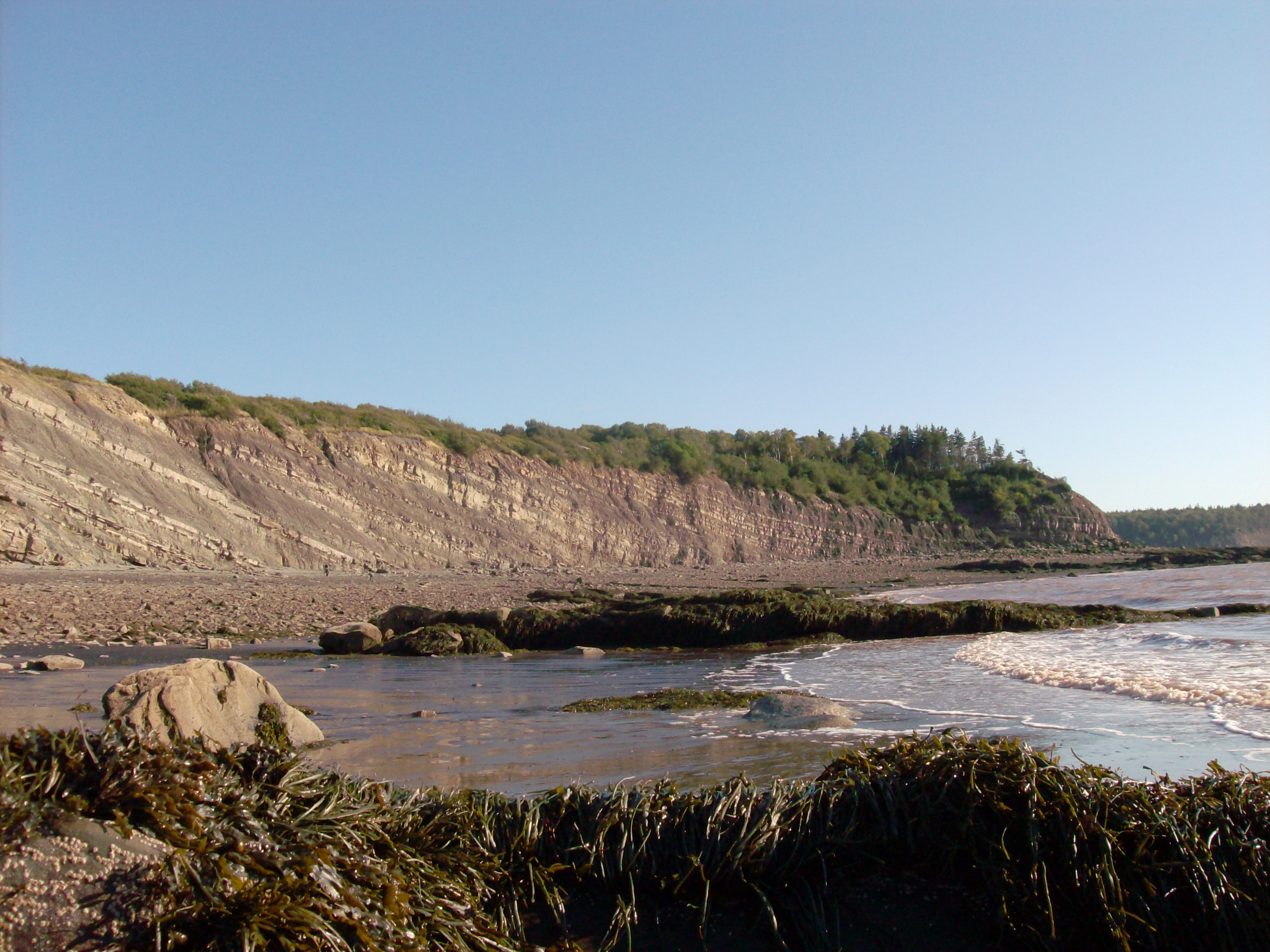 Joggins Fossil Cliffs, just below the Joggins Fossil Center, near Joggins, Nova Scotia. The rocks exposed in the cliff comprise sandstones and shales (and subordinate coal and bituminous limestone) of the uppermost portion of the Joggins-Formation (left) and the lowermost portion of the overlying Springhill Mines Formation (right, towards the headland), Cumberland-Group, Pennsylvanian of the Cumberland Basin.